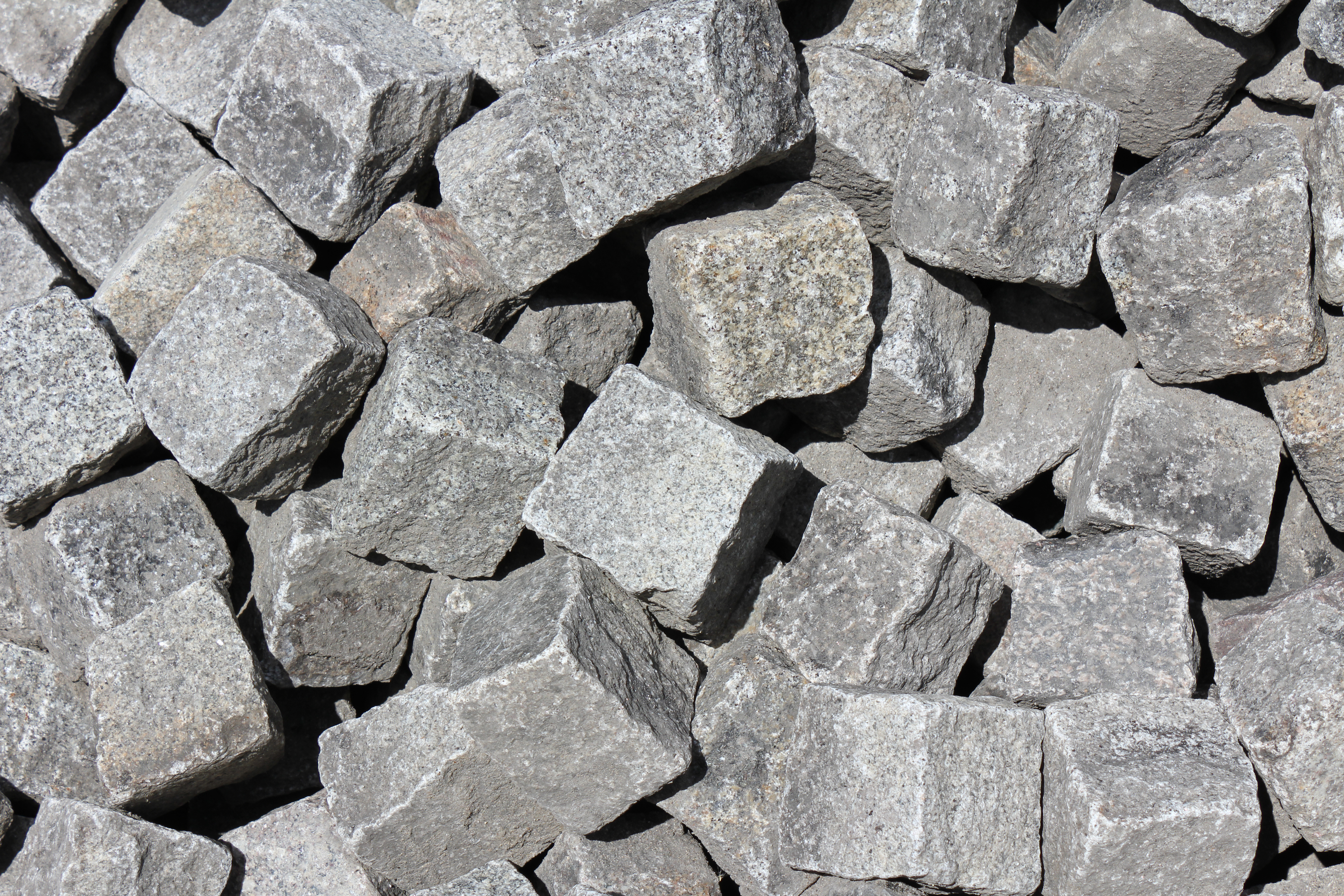 A pile of granite setts, extension of the tramway T3, 20th arrondissement of Paris, France.